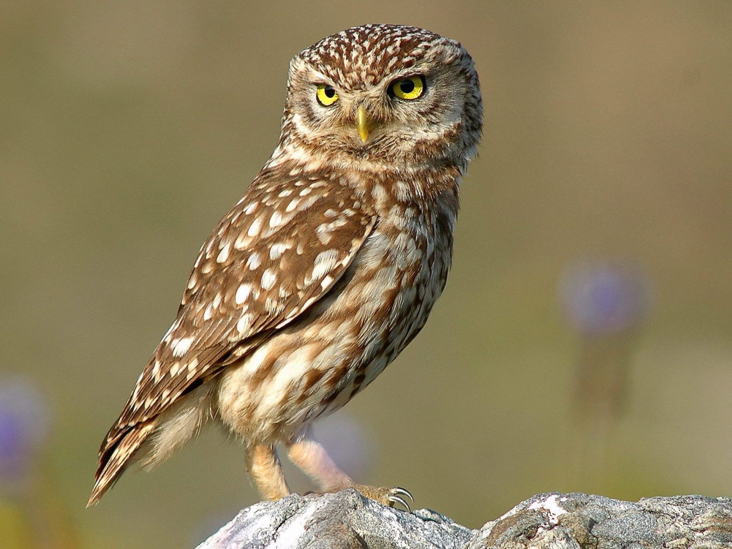 Little owl